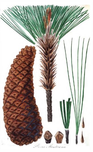 Pinus montezumae. Botanical illustration from: Description of the Genus Pinus, with directions relative to the cultivation, remarks on the uses of the several species and descriptions of many other new species of the Family of Coniferae illustrated with figures by Aylmer Bourke Lambert, Esq. London: Messrs. Weddell, MDCCCXXXII